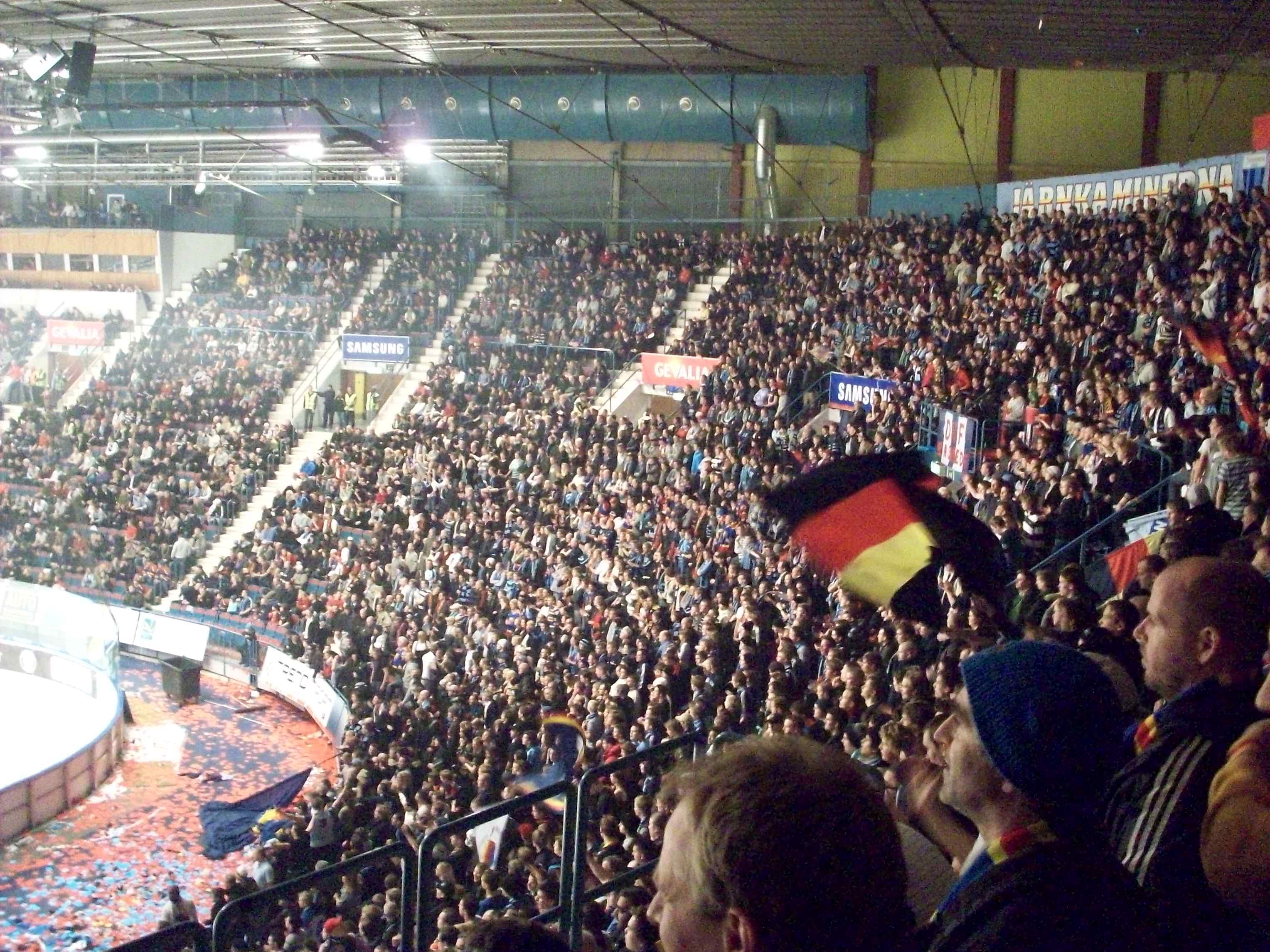 Djurgårdens IF's official supporterclub "Järnkaminerna" during the Swedish Elite League game Djurgårdens IF-Luleå HF (5-2).